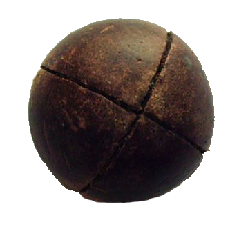 Based on picture , it is the same image, smaller, thought to be seen easier.